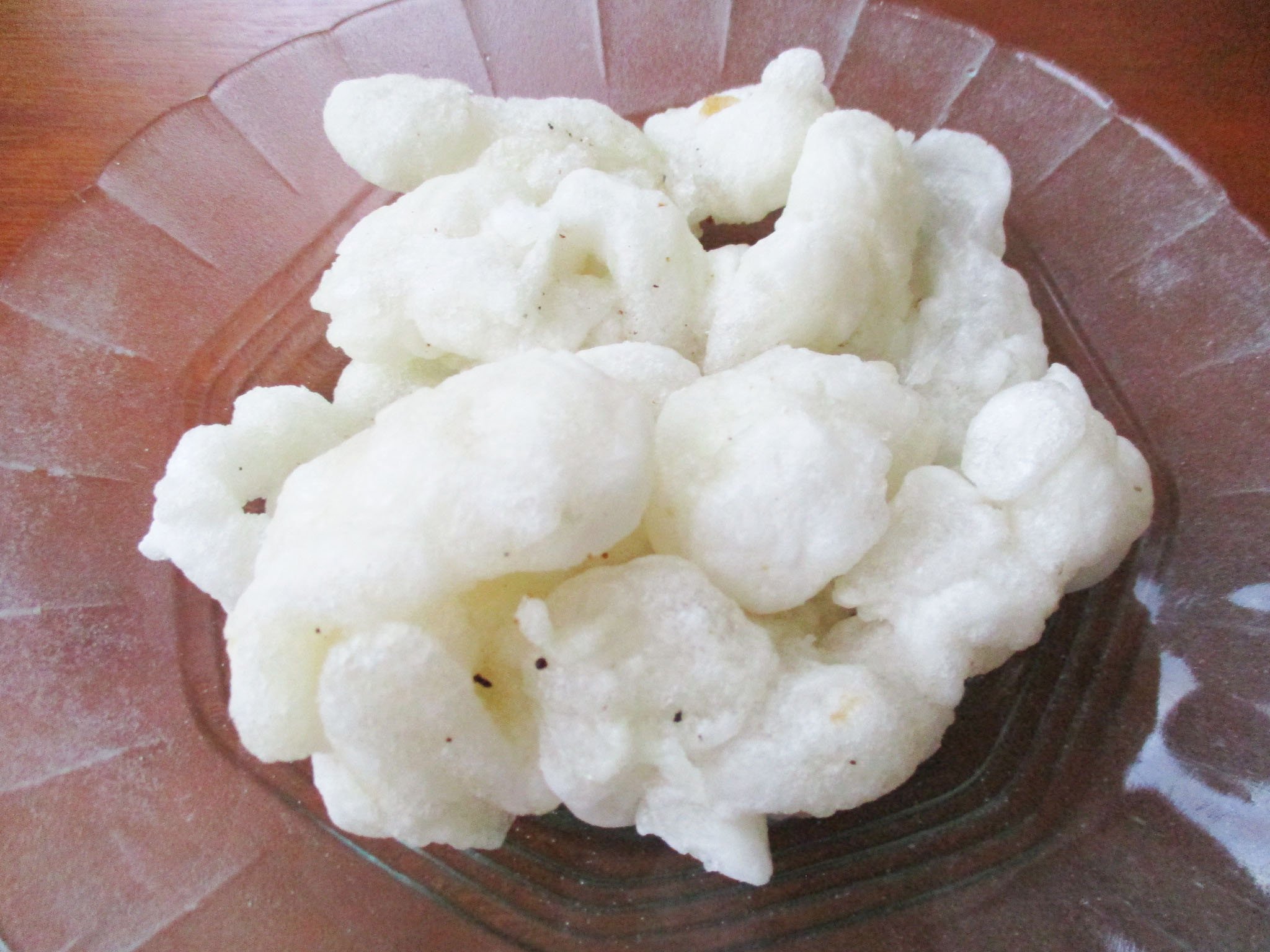 Geblèk is typical food from Kulonpraga, Indonesia which is made from cassava.